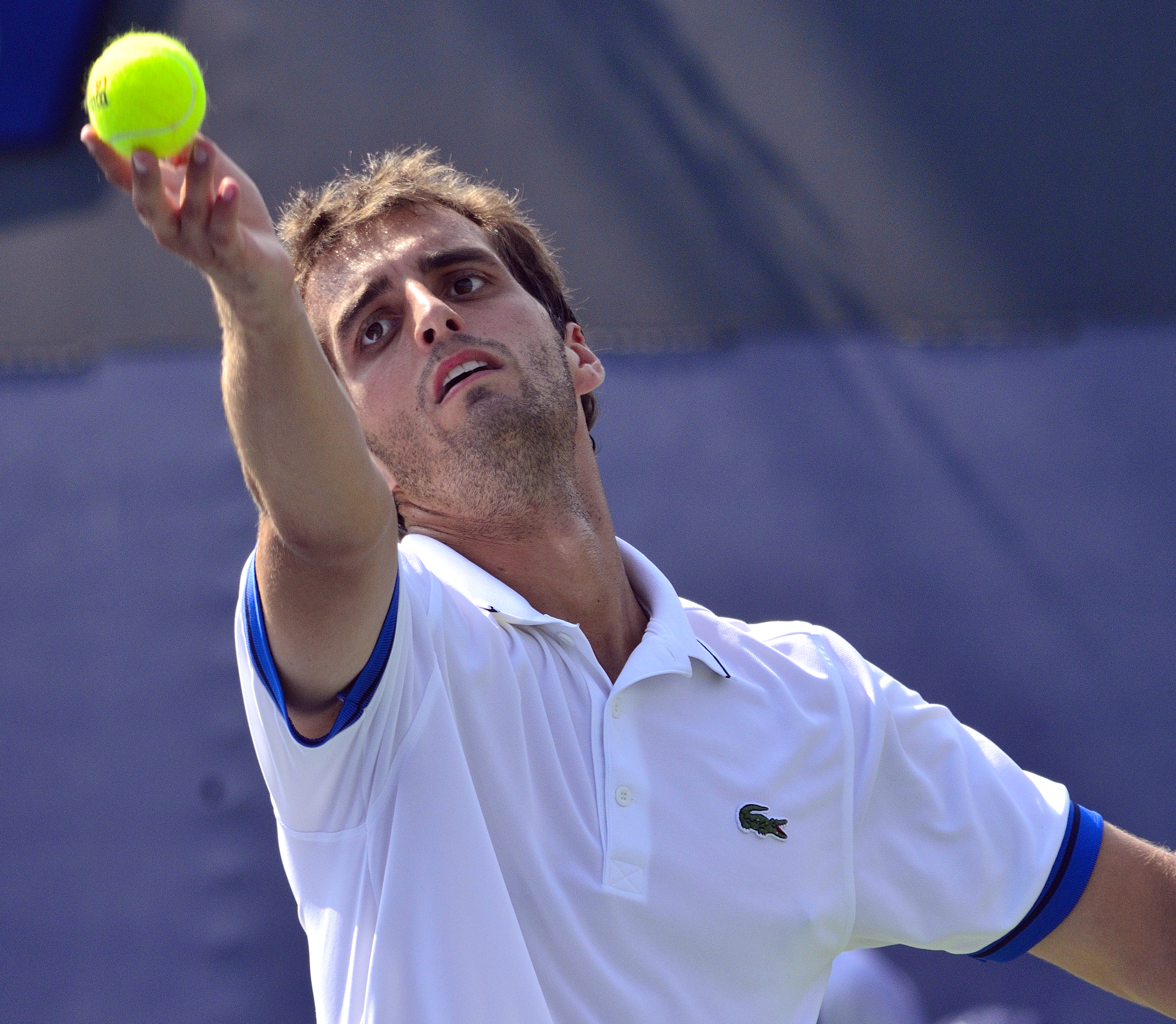 Queens, NY August 30, 2013 Michael Llodra (FRA) / Nicolas Mahut (FRA) def. Fabio Fognini (ITA) / Albert Ramos (ESP) Court 8